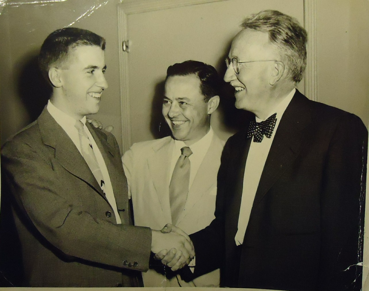 Advertising people from Chicago from the 1950s. Frederick "Sandy" Sulcer (left) wrote the "Put a Tiger in Your Tank" ad for what is now Exxon-Mobil; Sy Mullen (copywriter?); then agency-president Maurice Needham (right) which later became Needham, Harper & Steers, and is called "Omnicom" in 2012. The date of the initial photo is 1950, taken by my mother Dorothy Wright Sulcer who gives full permission. The date of the photo of the original picture is 2012-06-09.